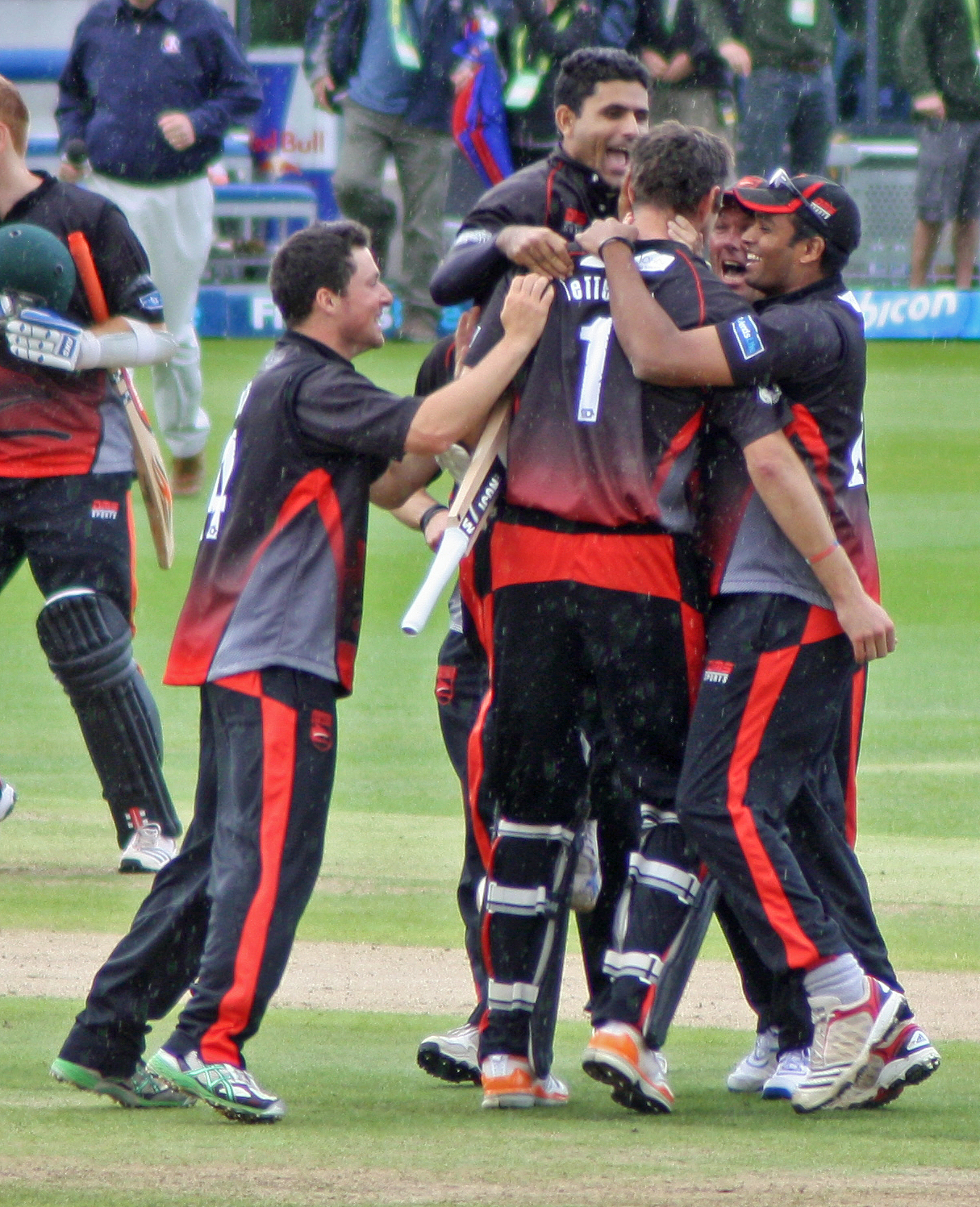 Leicestershire celebrate after beating Lancashire in the semi-final of the 2011 Friends Life T20 at Edgbaston, Birmingham.